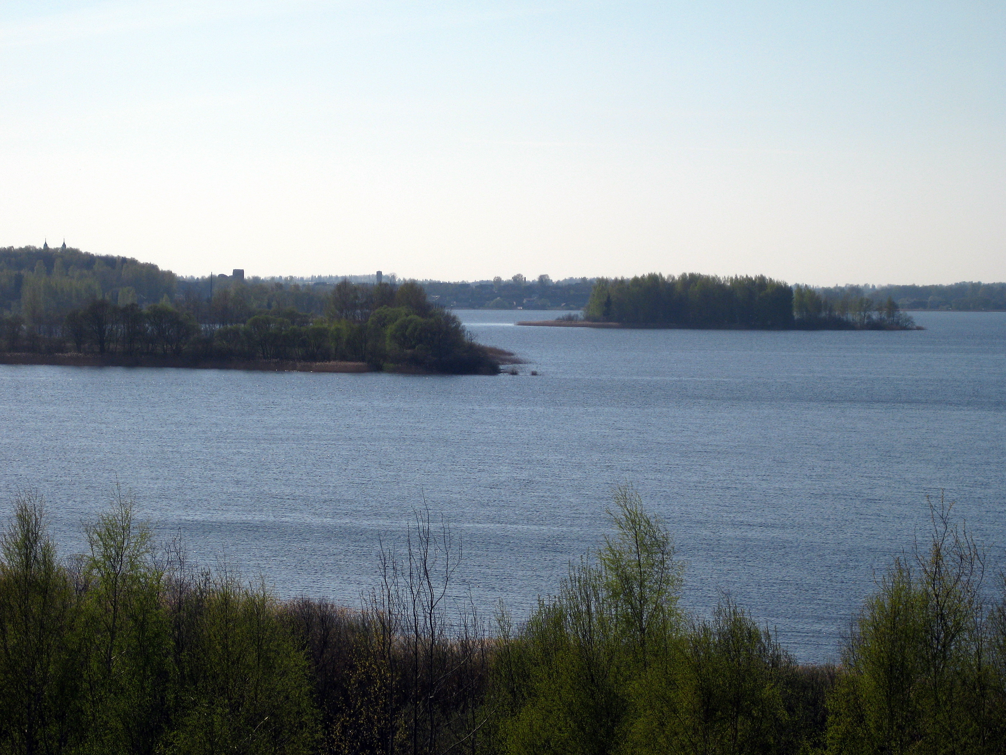 View toward Ludza across Greater Lake Ludza